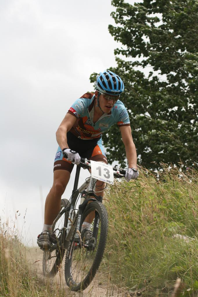 Irjan Luttenberg in descend during Benelux Championships 2008 at Zoetermeer